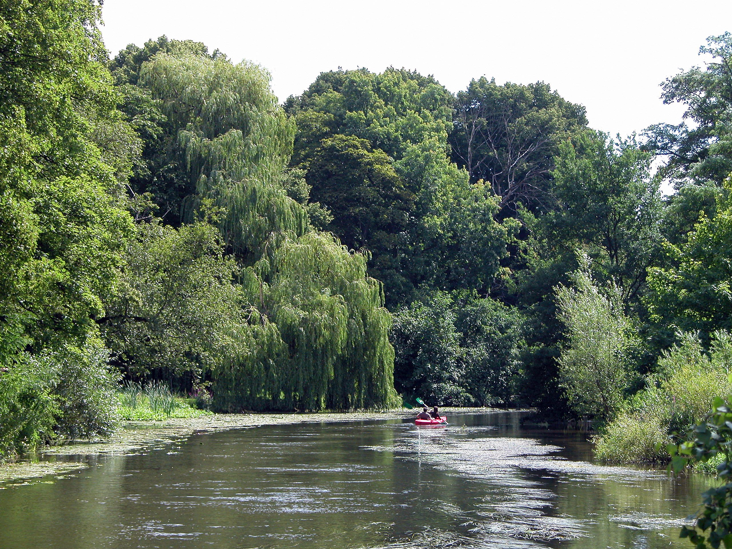 Braunschweig, Germany: Oker river running through Bürgerpark (Citizens’ Park).